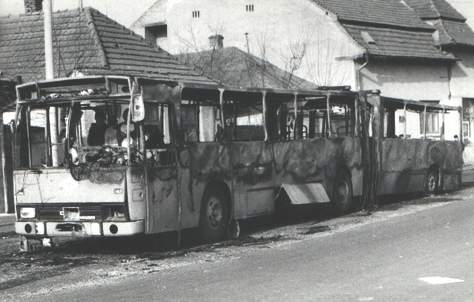 "Smashed buses in Târgu Mureș at the time of the "black march"" (quote from the source))